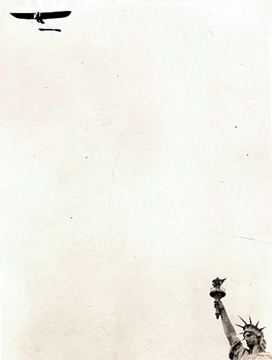 Belmont International Aviation Tournament, October 27, 1910.